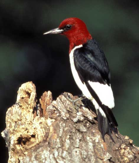 Red-headed woodpecker (Melanerpes erythrocephalus) photographed in the DeSoto National Wildlife Refuge